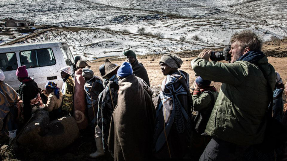 André François photographing in Lesotho, Africa.